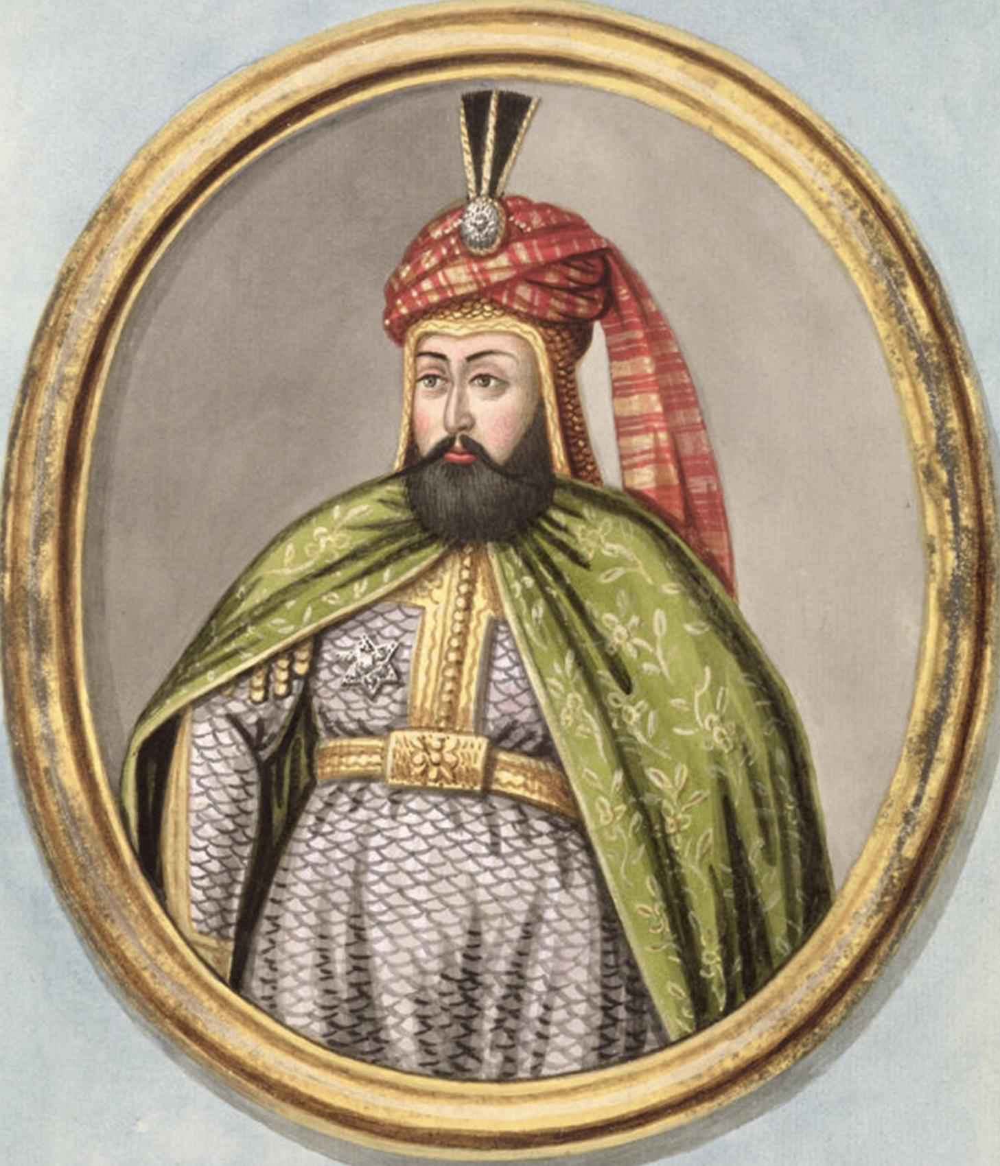 Portrait of Murad IV, Sultan of the Ottoman Empire (1623-1640). The portrait has been printed using the Giclée process.